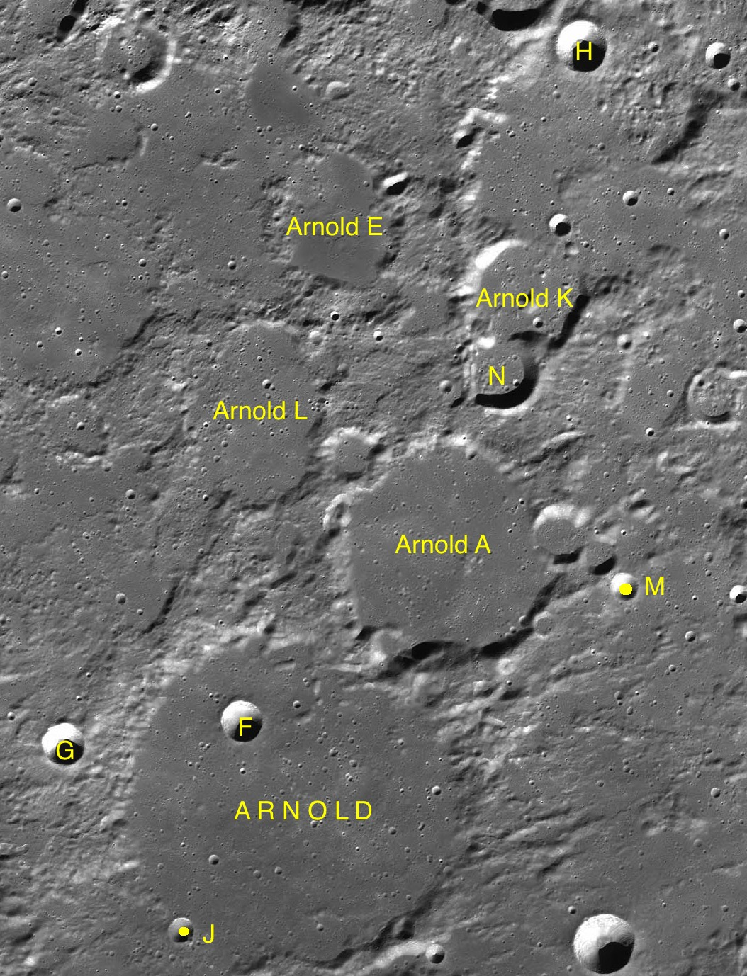 Part of the chart LAC-4 used for the presentation.